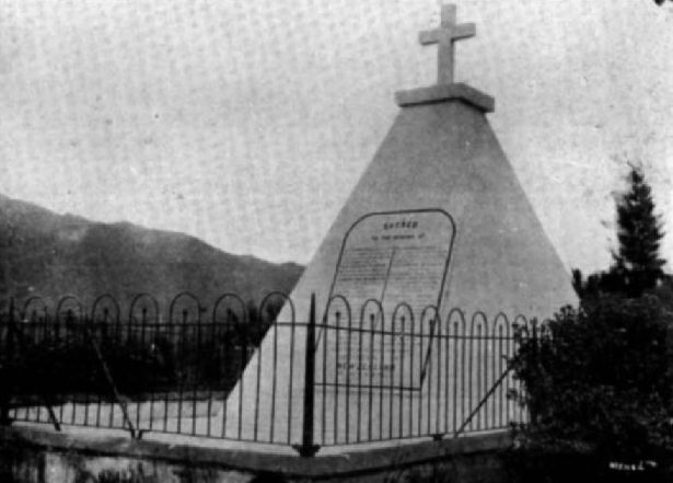 "Wairau Massacre Memorial" Title: The Cyclopedia of New Zealand [Nelson, Marlborough & Westland Provincial Districts] Author: Cyclopedia Company Limited Publication details: The Cyclopedia Company, Limited, 1906, Christchurch This New Zealand Wars-era memorial at Tuamarina cemetery was erected in 1869 to commemorate the 1843 Wairau incident.